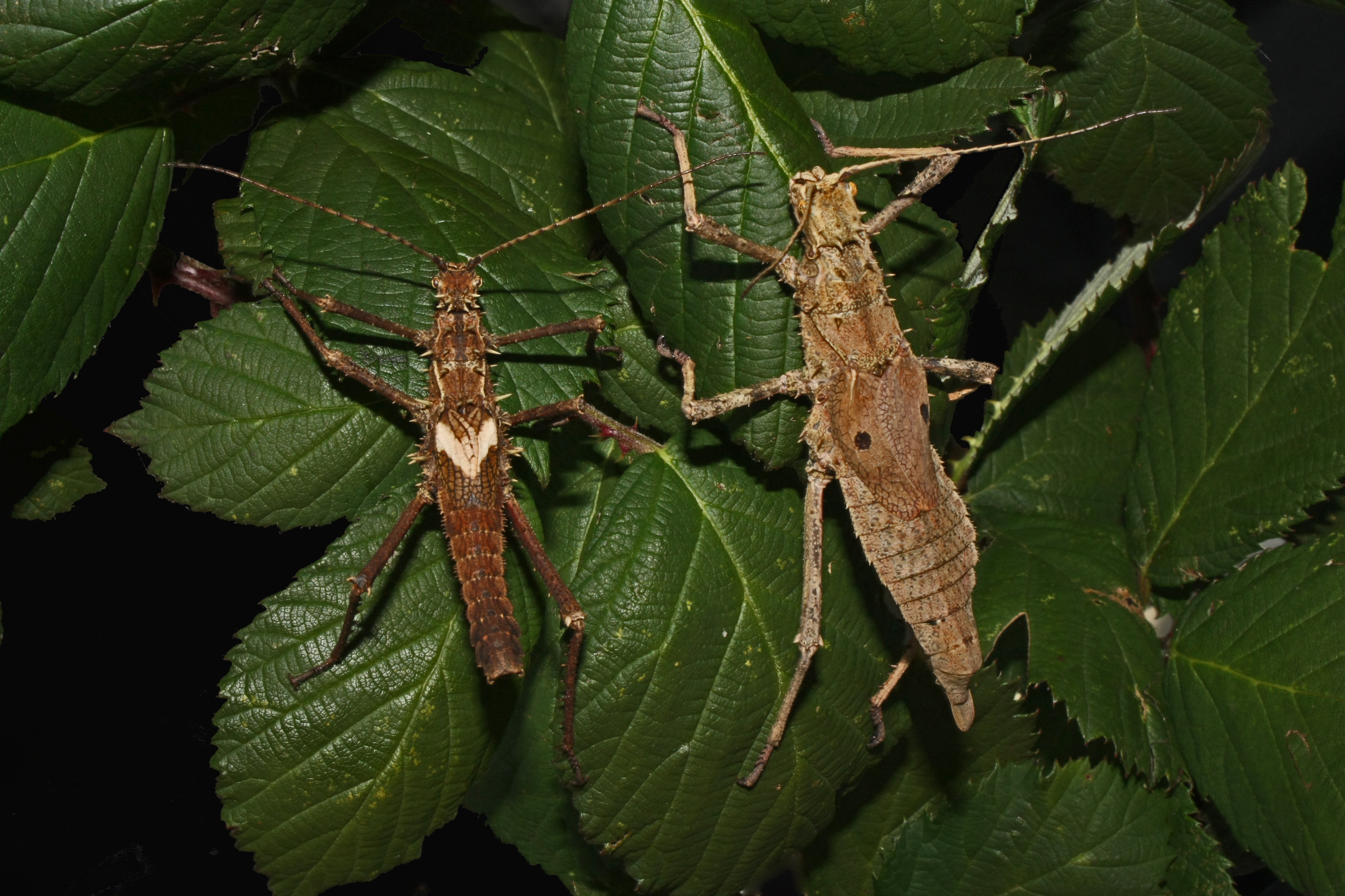 Pair of Small Haaniella (Haaniella scabra)